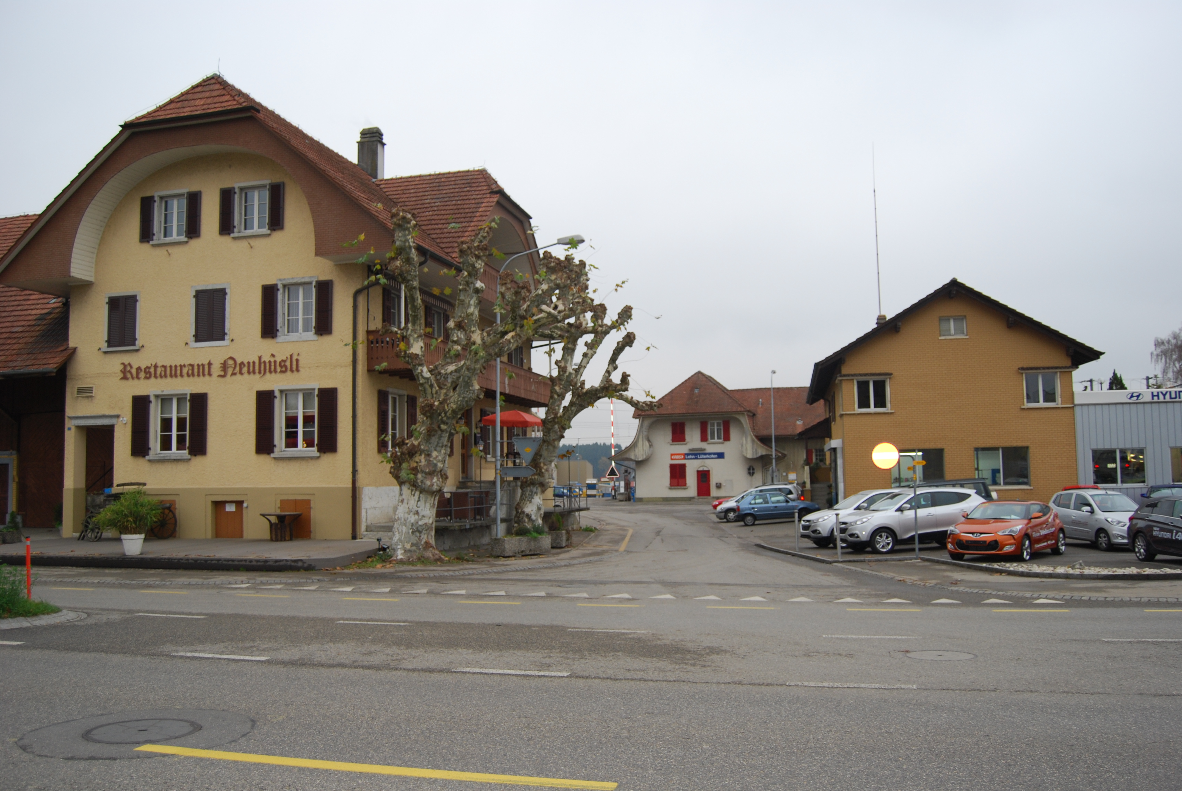 Restaurant Neuhüsli at Lohn-Ammannsegg, canton of Solothurn, Switzerland